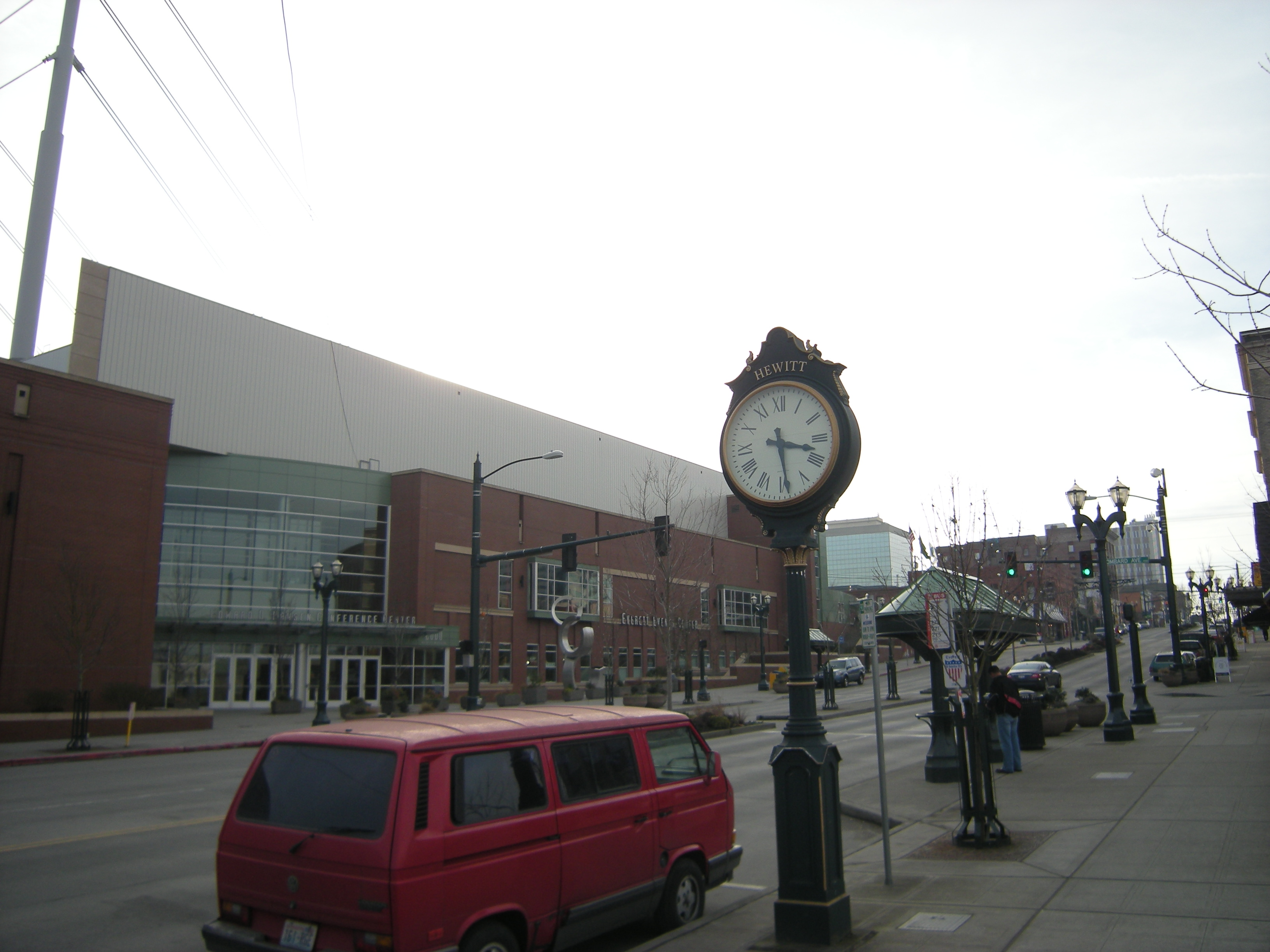 Street clock on Hewitt Avenue across the street from Comcast Arena (formerly Everett Events Center), Everett, Washington, USA.